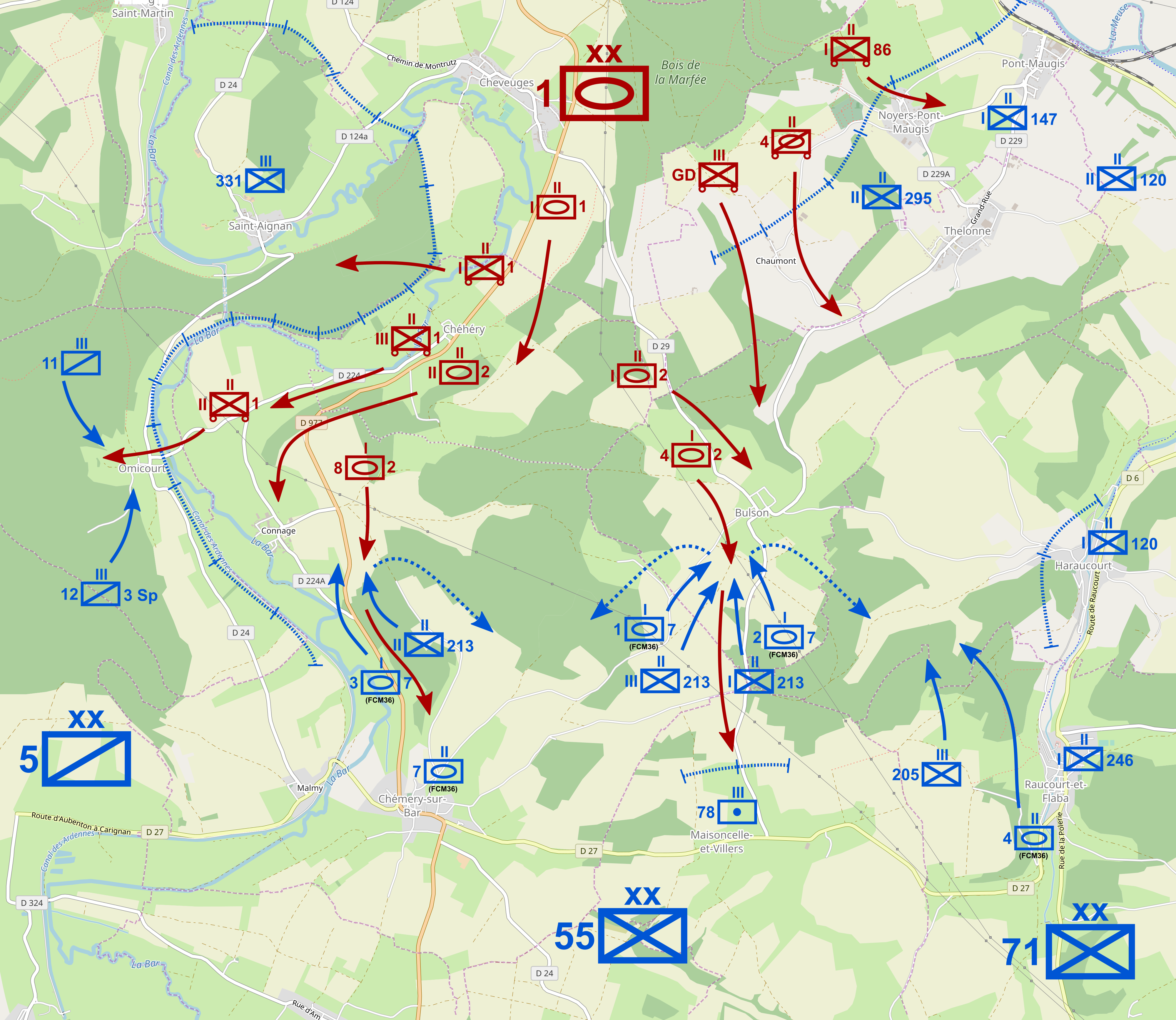 Map showing the tank battles at Bulson and Connage, May 14 1940. Influenced by maps in Karl-Heinz Frieser's "The Blitzkrieg Legend" and Pier Paolo Battistelli's "Panzer Divisions: The Blitzkrieg Years 1939-40". This map may be incomplete, and may contain errors. Don't rely solely on it for navigation.